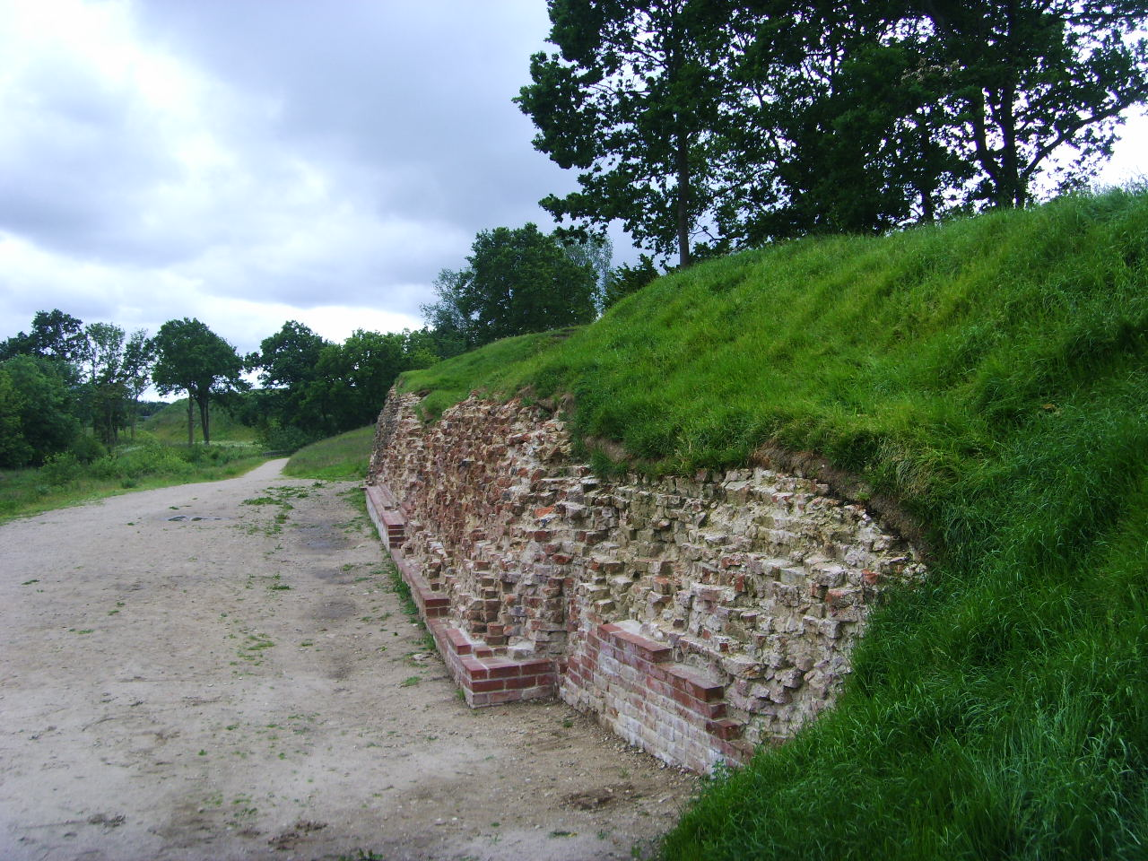 Lot of defense work Dannevirke.